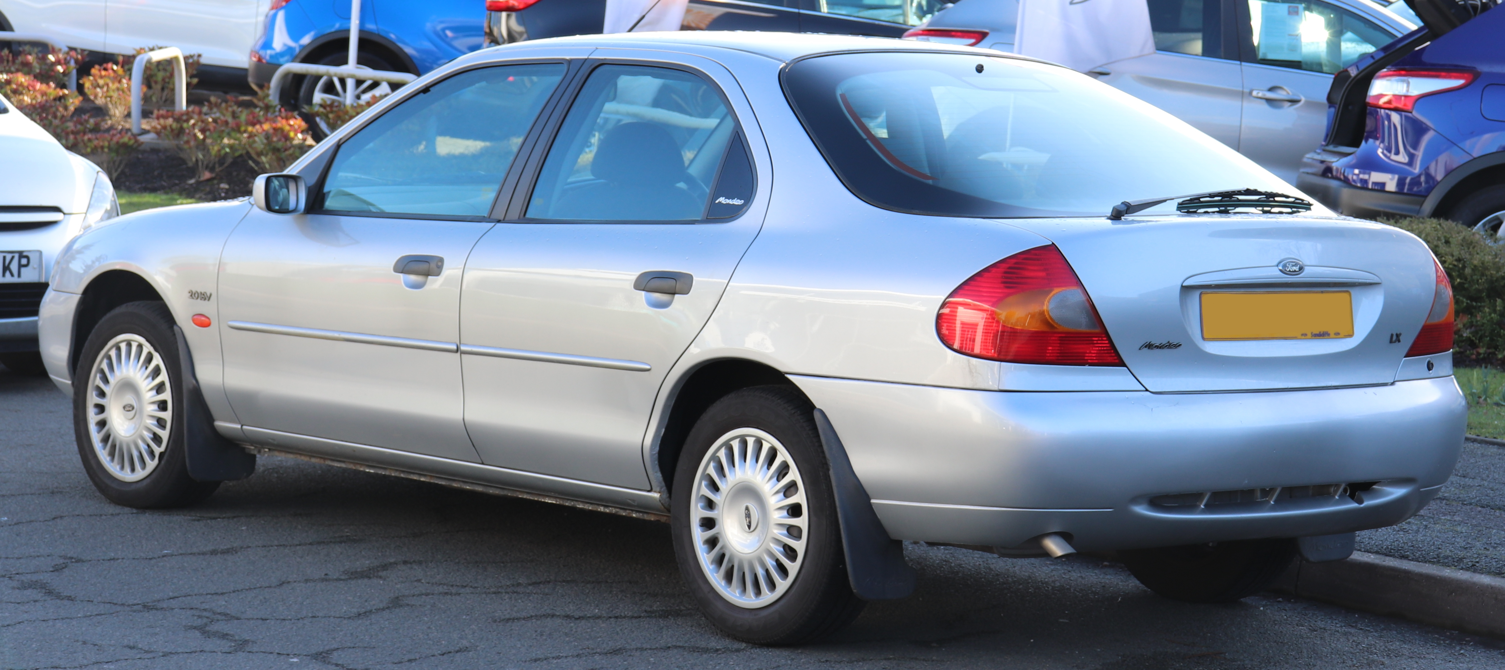 2000 Ford Mondeo LX 2.0 Rear Taken in Leamington Spa